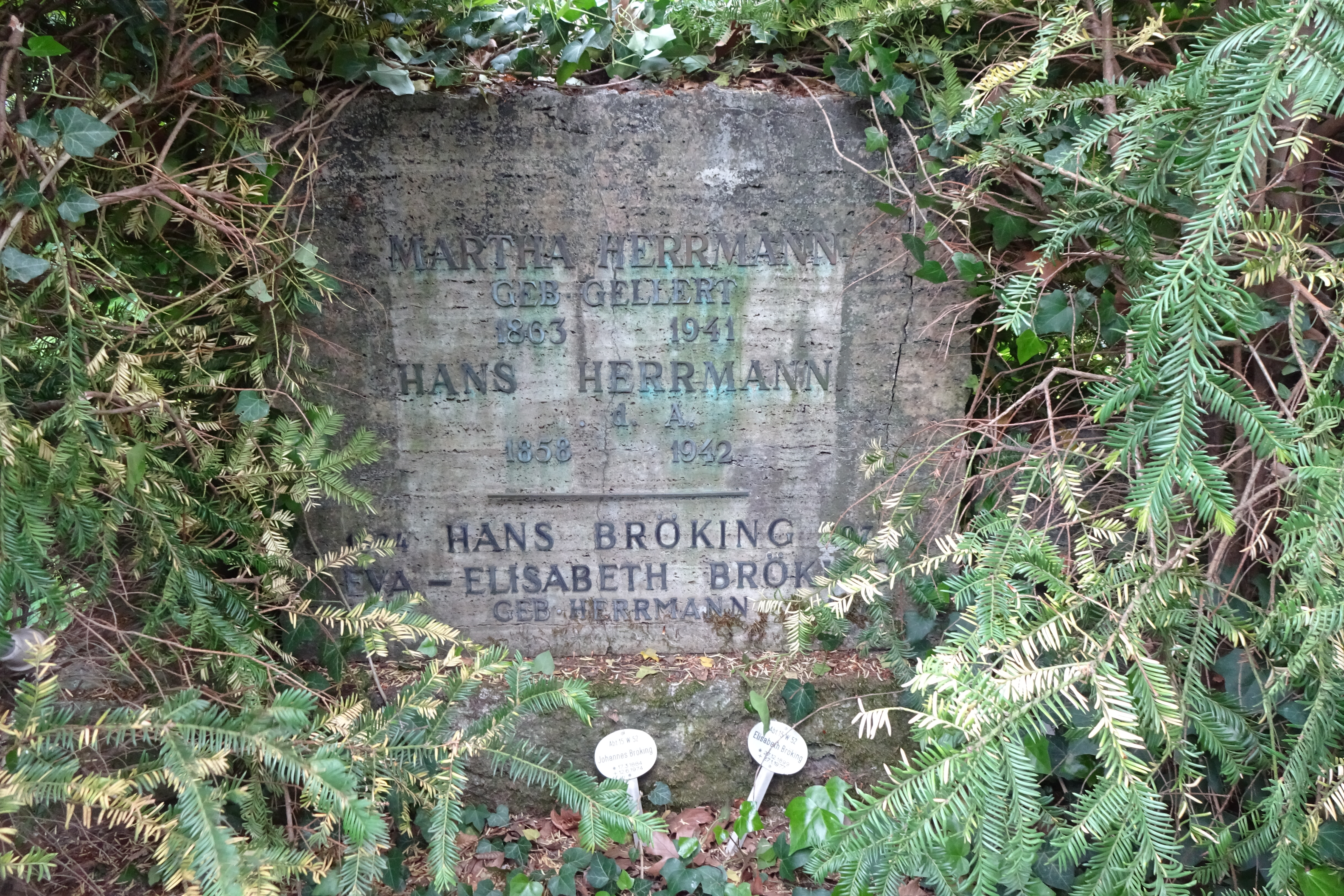 Grave of German painter Hans Herrmann in Friedhof Zehlendorf in Berlin-Zehlendorf